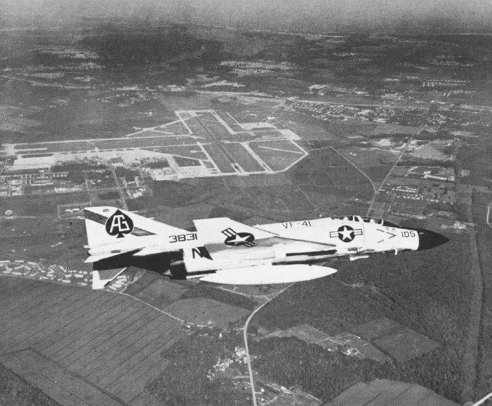 A McDonnell Douglas F-4J Phantom II (BuNo 153831) of fighter squadron VF-41 Black Aces over Naval Air Station Oceana, Virginia Beach, Virginia (USA). VF-41 was assigned to Attack Carrier Air Wing Seven (CVW-7) aboard the U.S. aircraft carrier USS Independence (CVA-62) for a deployment to the Mediterranean Sea from 30 April 1968 to 27 January 1969. From 1970 to 1975 VF-41 was then assigned to CVW-6 (tail code "AE").